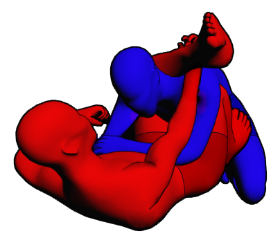 diagram showing two martial artist demonstrating the rubber guard position or 'mission control' from the 10th Planet Jiujitsu system.